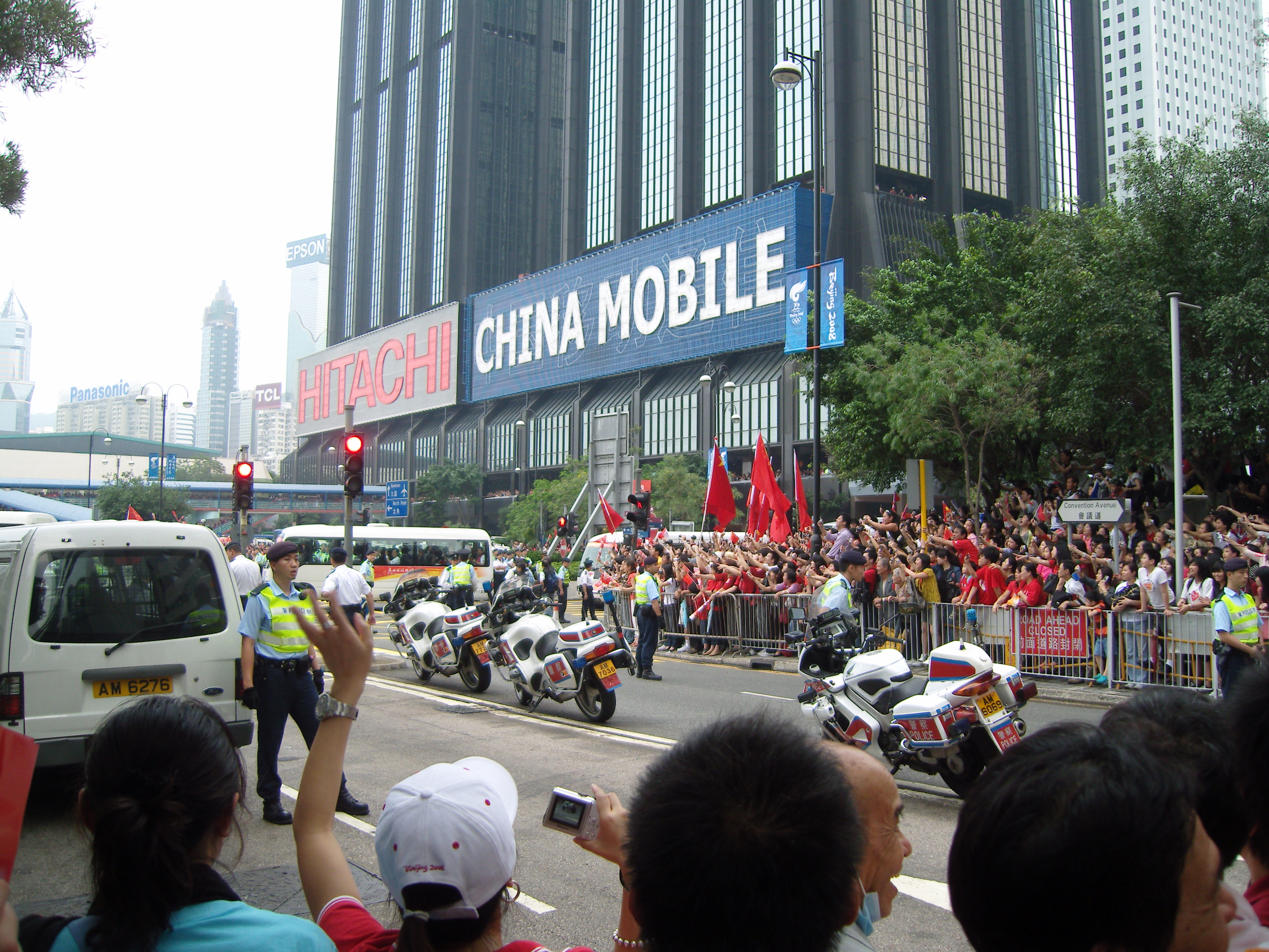 2008 Summer Olympics Torch in Wan Chai, Hong Kong.